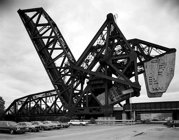 VIEW OF THE B & O RAILRAOD'S LIFT BRIDGE (NEAR) AND THE ADJACENT ST. CHARLES AIRLINE RAILROAD'S BASCULE BRIDGE (BEYOND); LOOKING SOUTHEAST HAER ILL, 16-CHIG, 112-2 Library of Congress According to the Library of Congress, the records in the Historic American Engineering Record (HAER) "were created for the U.S. Government and are considered to be in the public domain."